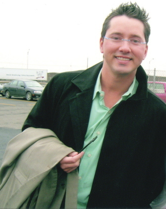 Todd Grisham back of the arena